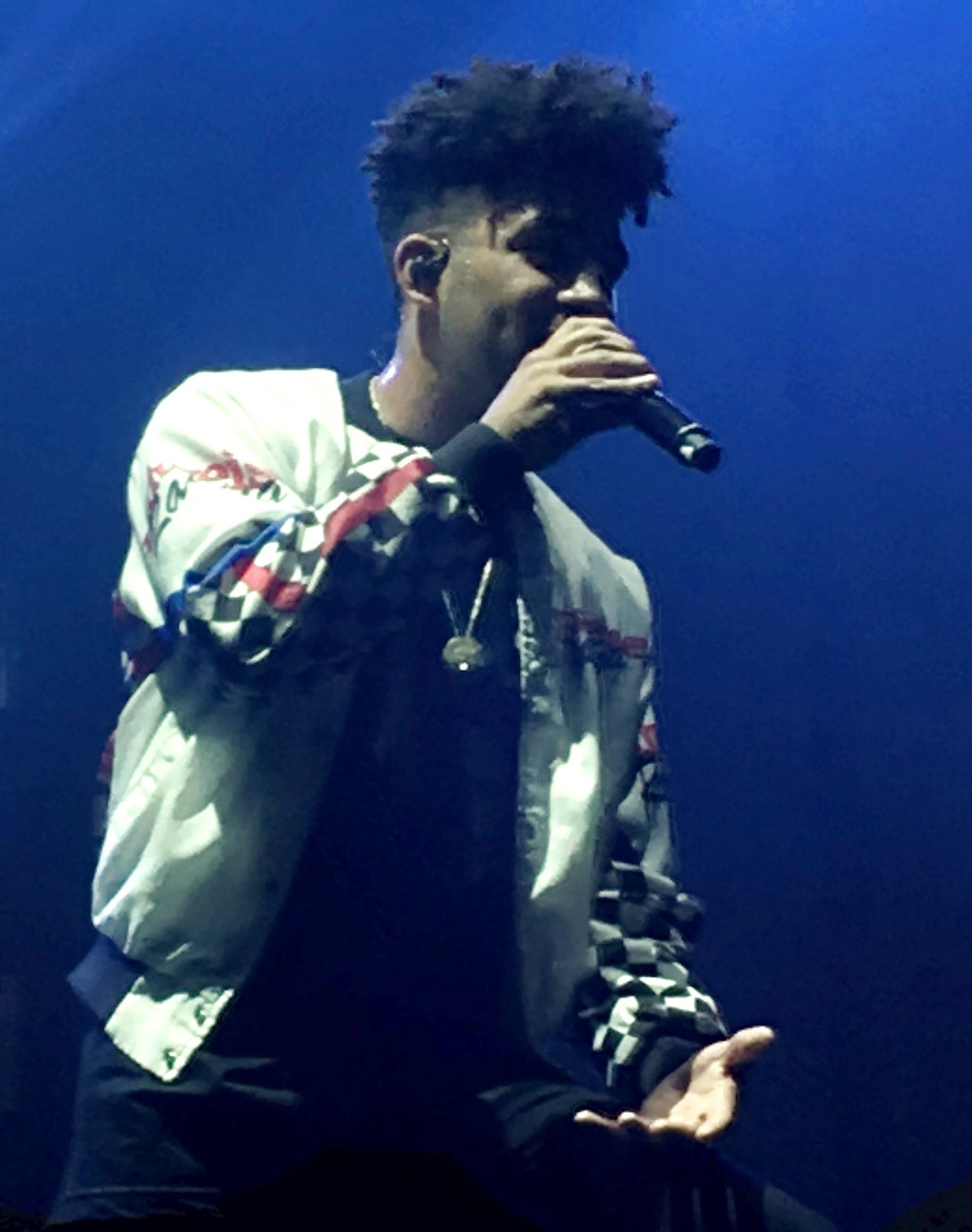 Cropped version of the original photo, with some lightening and color changes for better viewing.